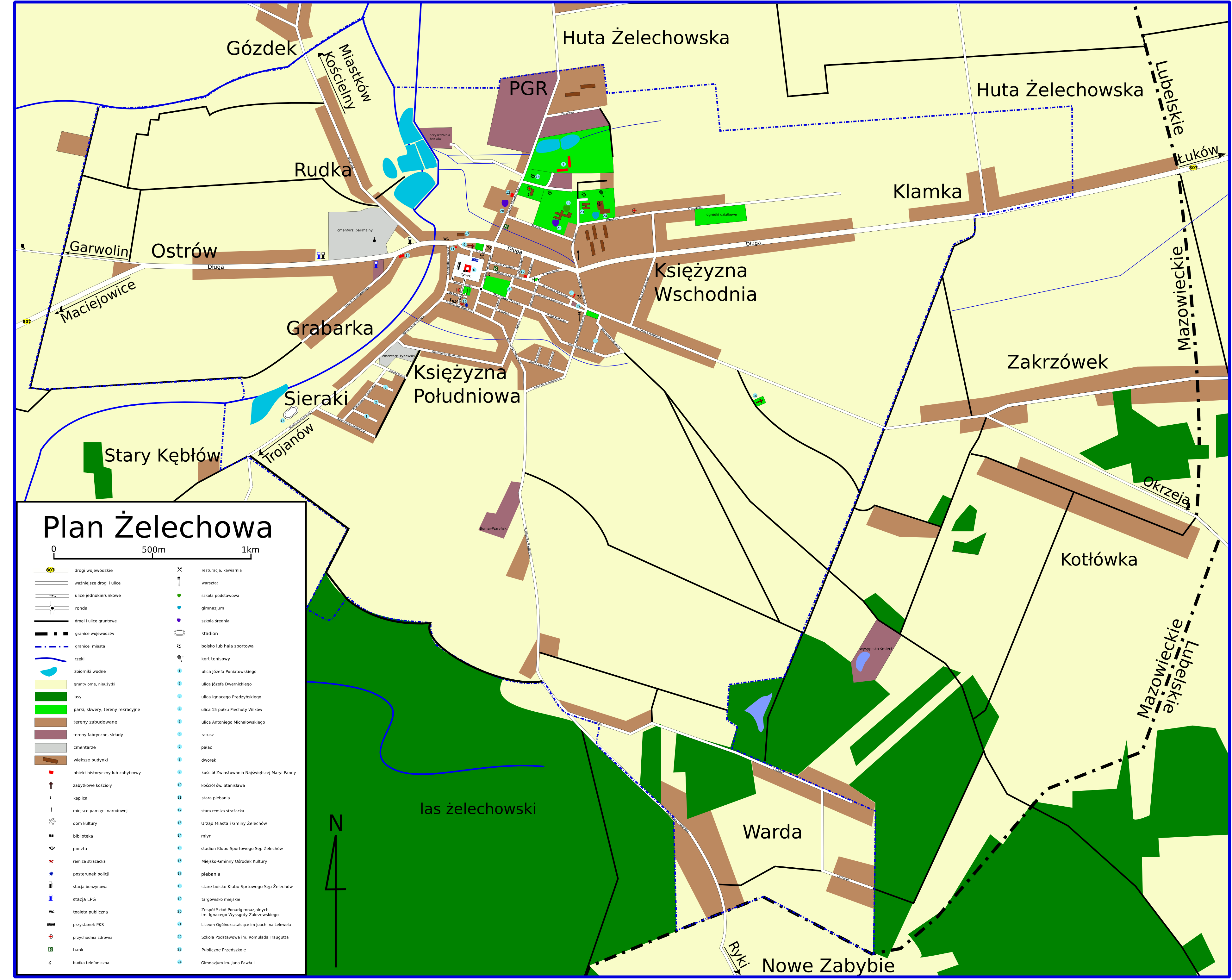 Map of Żelechów, Poland.